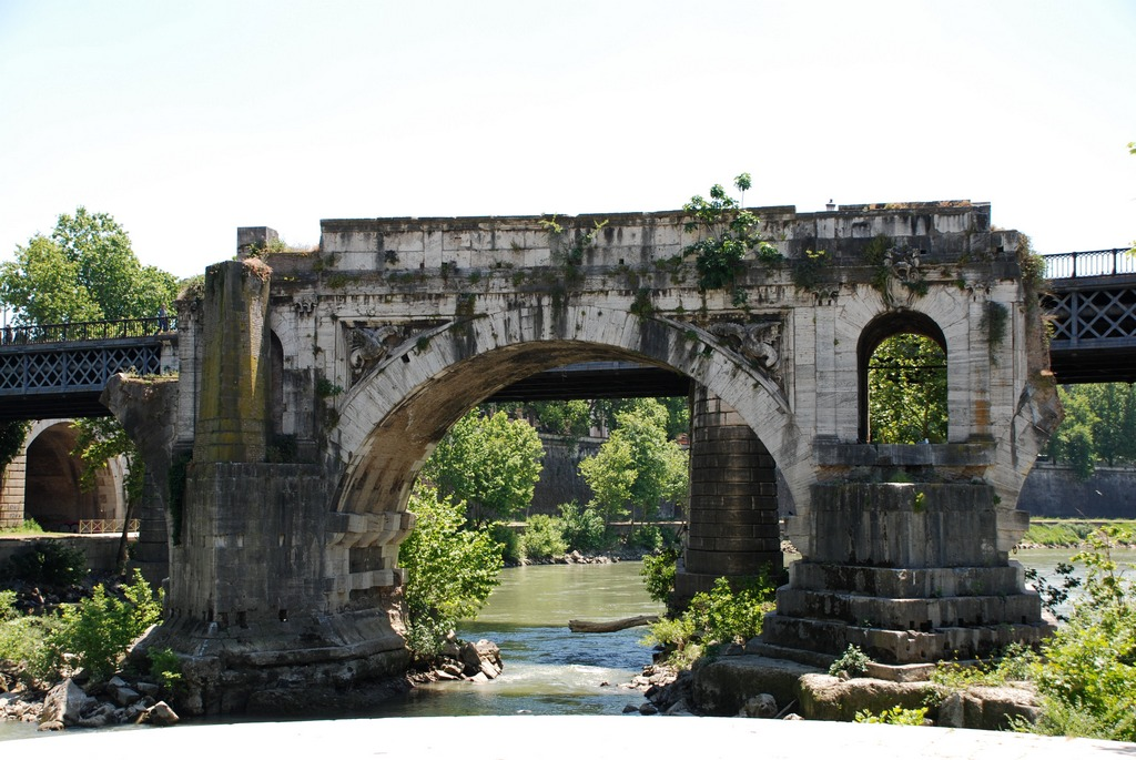 The Pons Aemilius (Italian: Ponte Emilio), today called Ponte Rotto, is the oldest Roman stone bridge in Rome, Italy. Preceded by a wooden version, it was rebuilt in stone in the 2nd century BC. It once spanned the Tiber, connecting the Forum Boarium with Trastevere; a single arch in mid-river is all that remains today, lending the bridge its name Ponte rotto ("Broken bridge"). Damaged and repaired on several occasions, the bridge was defunct by 1598, when its eastern half was carried away in a flood. The remaining half was demolished in the 1880s, leaving behind only one arch.